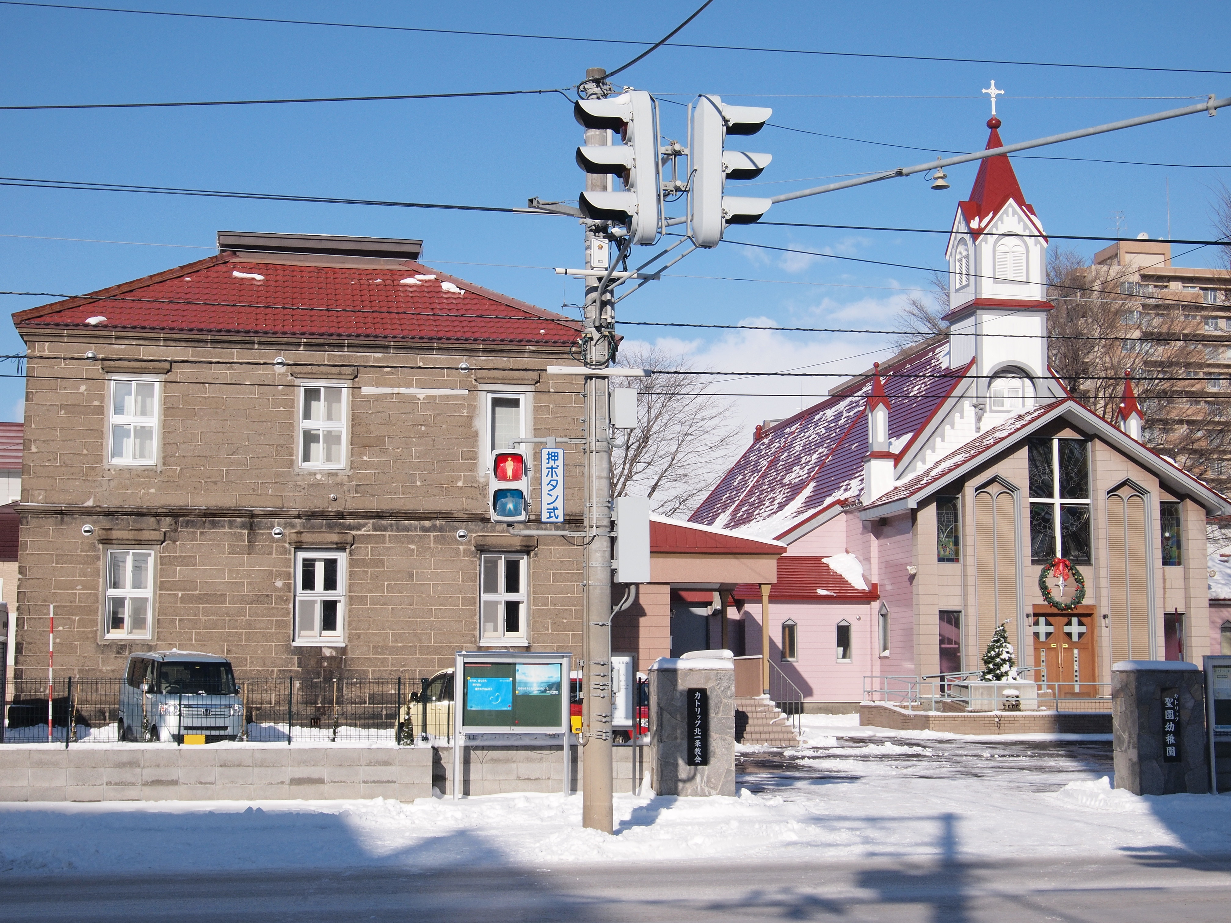 Catholic Kita1jo Cathedral, Sapporo, Hokkaido, Japan